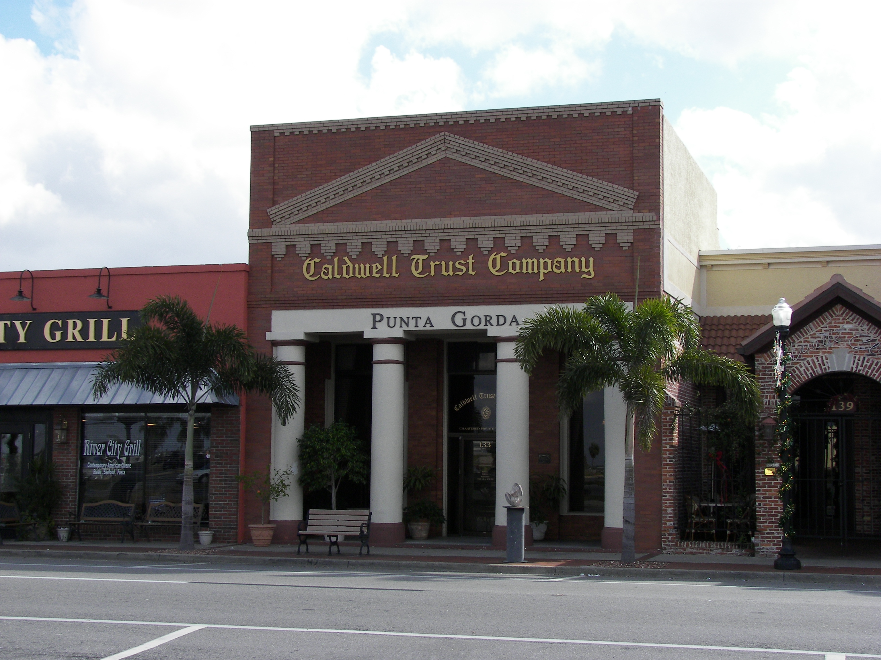 Old First National Bank of Punta Gorda in Punta Gorda, Florida.